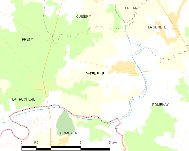 Map of French municipality